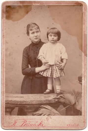 Anna Kisielnicka-Kossakowa and her dother, Zofia Kossakowa